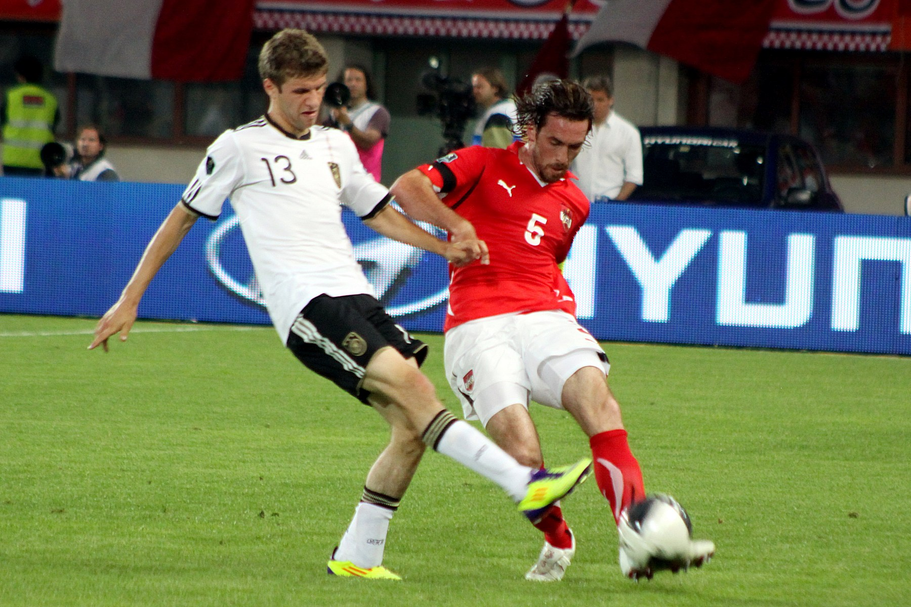 Qualifying for the UEFA Euro 2012 Austria (red shirt) vs. Germany (white Shirt) 1:2 (0:1) at 2011-06-03 in Vienna (Ernst-Happel-Stadion) — The photo shows (fron left to right): Thomas Müller (FC Bayern München), Christian Fuchs (1. FSV Mainz 05).